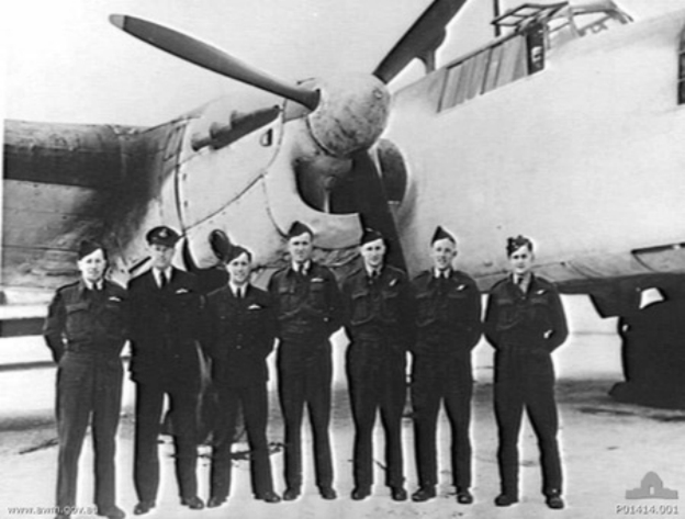 One of two RAF Coastal Command, No. 612 Squadron, Armstrong-Whitworth Whitley bombers which operated out of Iceland, showing most of the crew lined up in front of the starboard propeller at Reykjavik, Iceland, in May 1942. Left to right: RAF pilot George Totolos, RAAF Flying Officer Terry H. Gordon-Glassford, an unknown RAAF pilot, RAF Pilot Geoff Dobbie, RAF Observer Les Green, RAF Wireless Air Gunner (WAG) Bob Royle and RAF WAG Eldon Beale. Missing are Jack Redman and Geoff Turner.